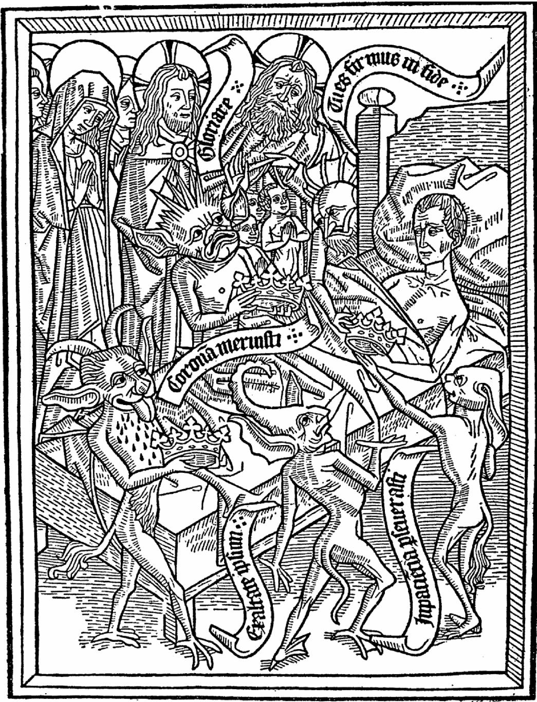 Demons tempt the dying man with crowns (a medieval allegory to earthly pride) under the disapproving gaze of Mary, Christ and God. Woodblock seven (4a) of eleven, Netherlands, circa 1460 Notes: Pride is one of the major temptations of the dying man. Here, devils and demons hand the dying man his crowns, symbol of earthly possessions and pride, to the disapproving gaze of Mary and Christ.